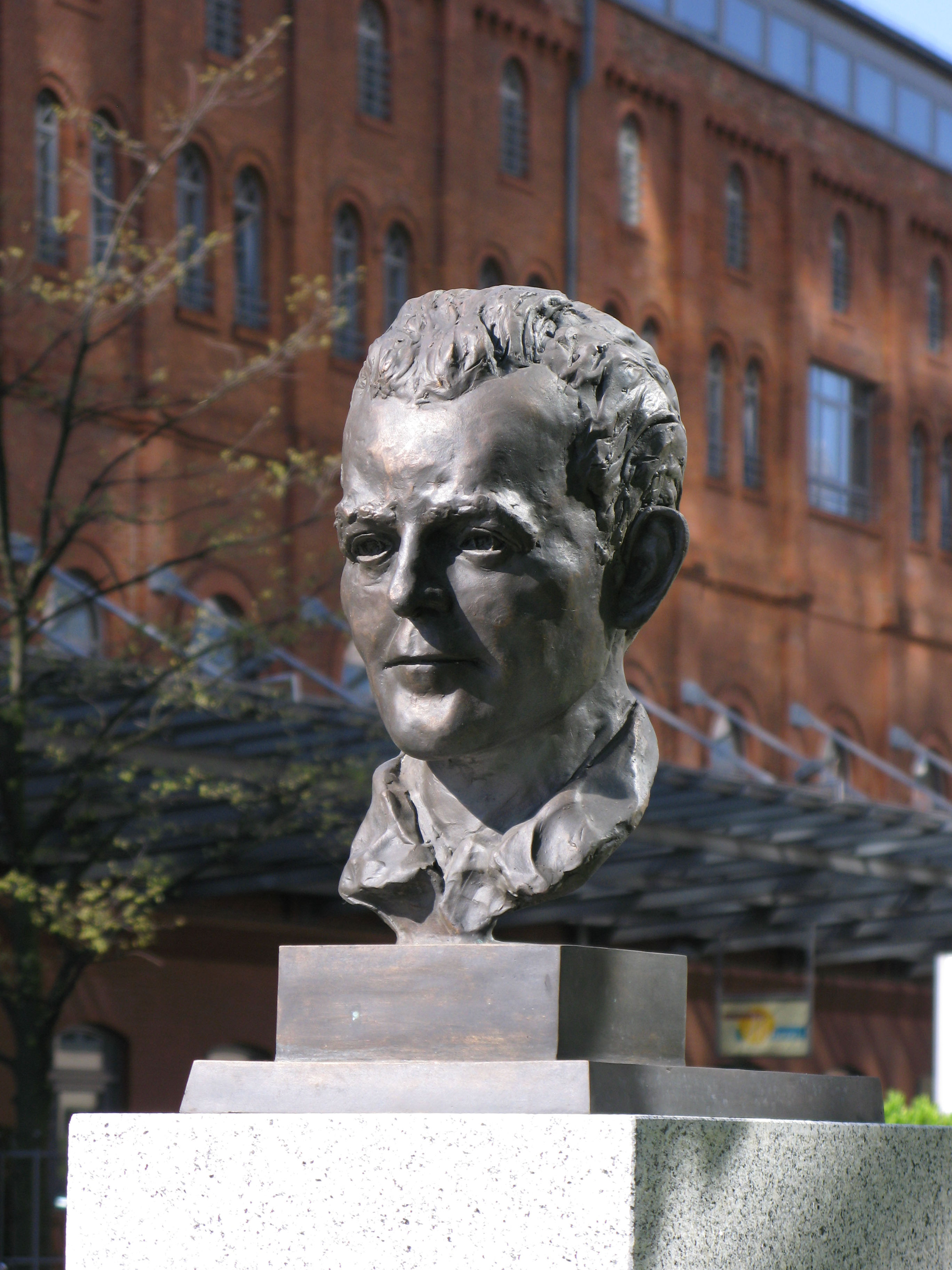 Bust of Georg Elser in Berlin.